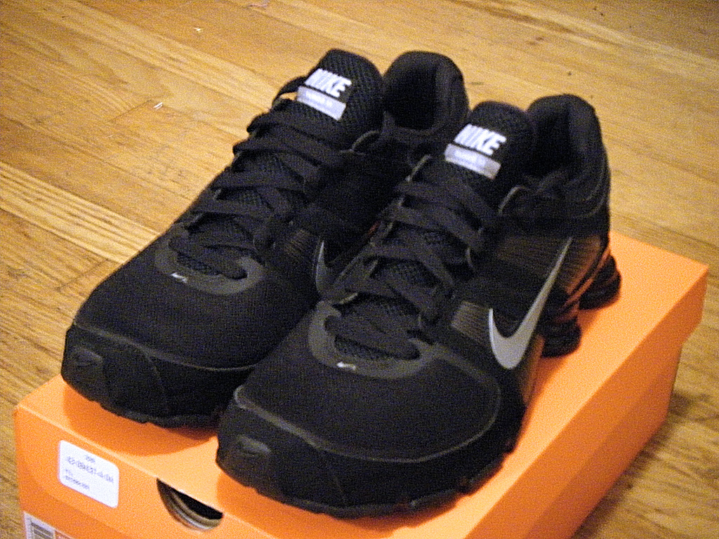 A pair of black Nike Shox Turbo 11 shoes.